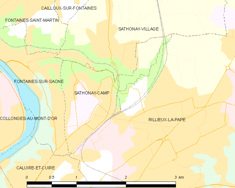 Map of French municipality